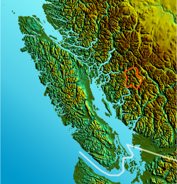 adapted from 578px-Vancouver_Island-relief.png which is in Wikimedia Commons